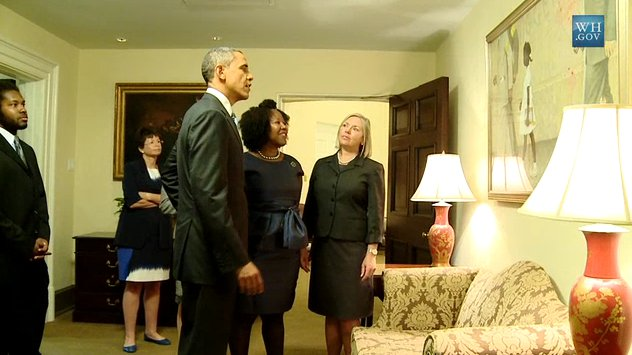 Ruby Bridges visited the White House to see how a painting commemorating her personal and historic milestone looks hanging on the wall outside of the Oval Office. American Artist Norman Rockwell was criticized by some when this painting first appeared in the pages of Look magazine on January 14,1964; now the iconic portrait will be on display throughout the summer of 2011 in one of the most exalted locations in the country. YouTube video: President Obama talking with Ruby Bridges, "The Problem We All Live With" painting (The White House channel)